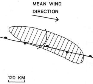 A progressive derecho event (hatched area) is typically associated with a squall line of restricted length (dashed & two dotted line) which may involve a single bow echo or multiple bow echoes. Progressive derecho events are usually associated with a stationary front in a rather stagnant weather pattern.